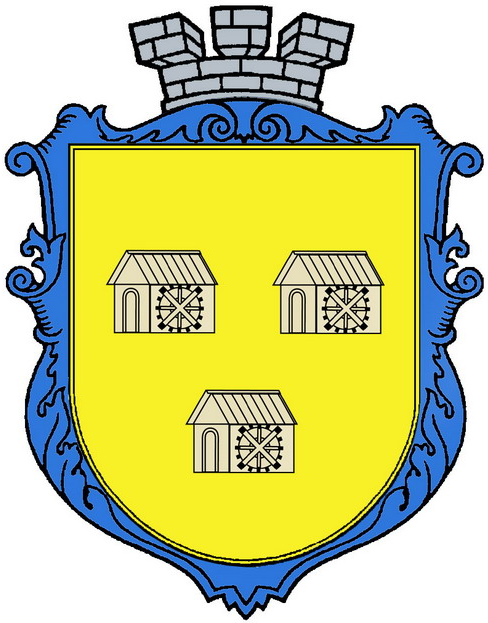 Coat of Arms Bilopillia Sumy Oblast Ukraine